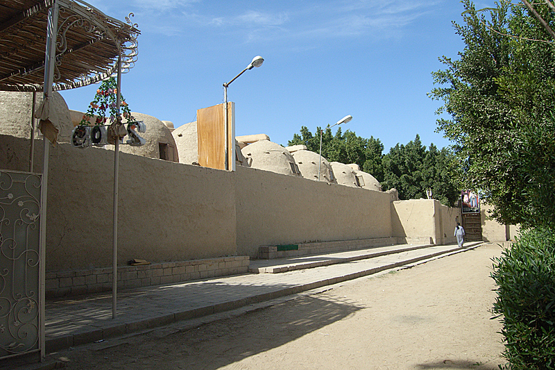 Eastern wall of the Monastery Deir el-Anba Bakhum, Luxor, Egypt